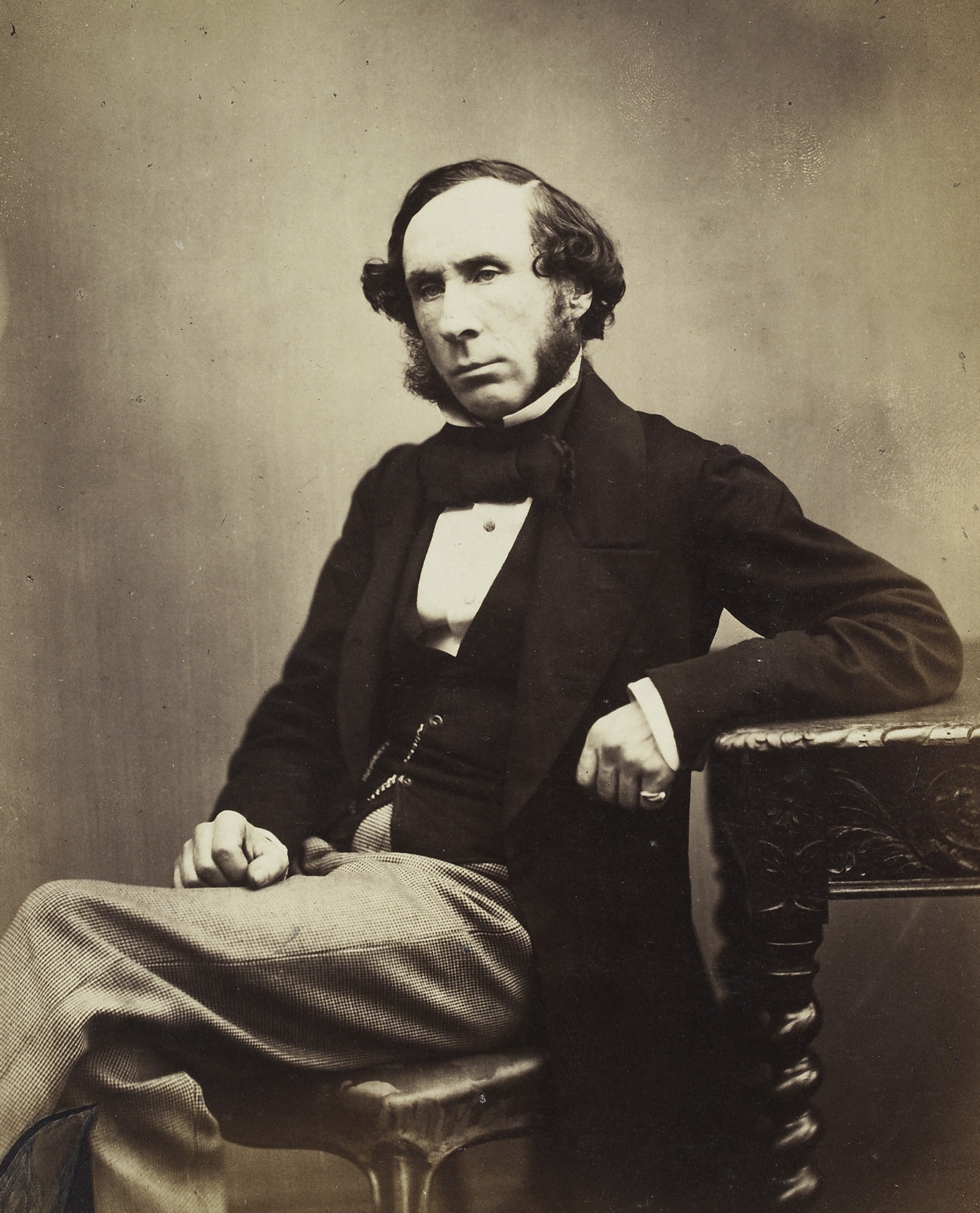 Portrait of G. Owen Rees, Physician to Guy's Hospital, a member of the St. Albans Medical Club